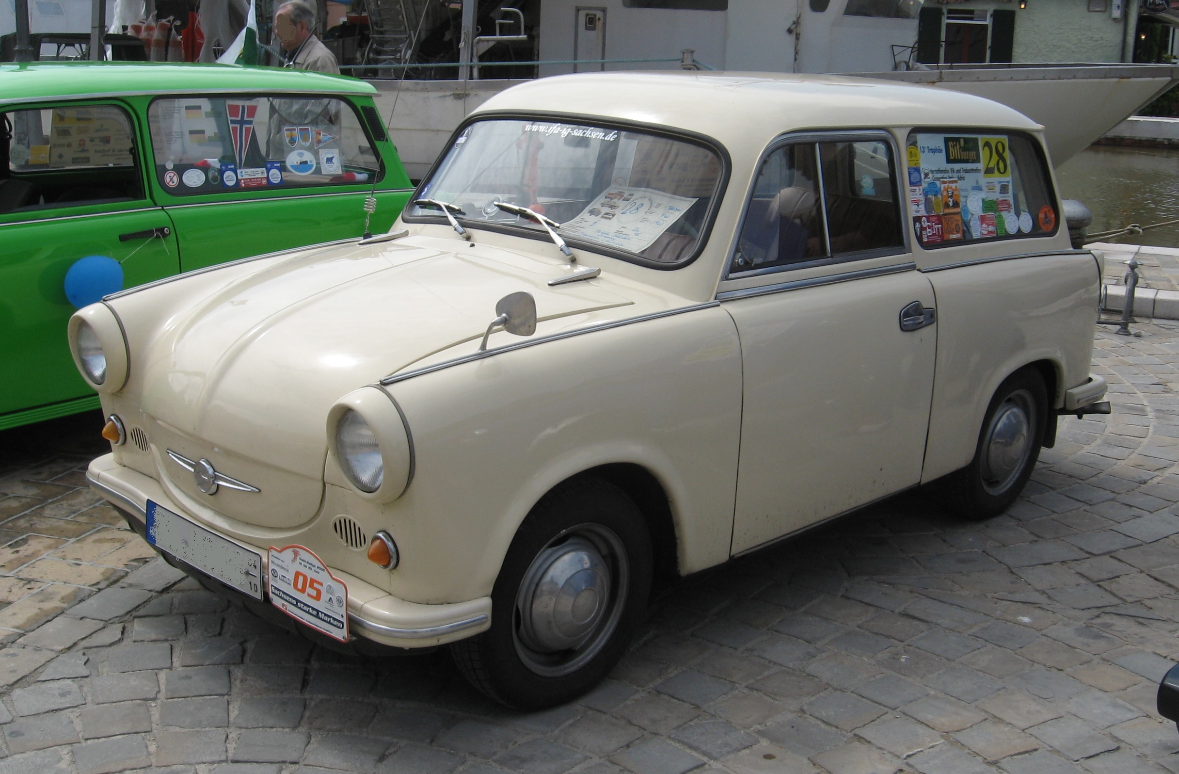 Subject: Trabant P50 Kombi Author: Luc106 Date:May 16th, 2010 Event: Raduno Trabant (Trabant Treffen) Place/Country: Cesenatico (FC), Italy I release all rights in the public domain. Licensing